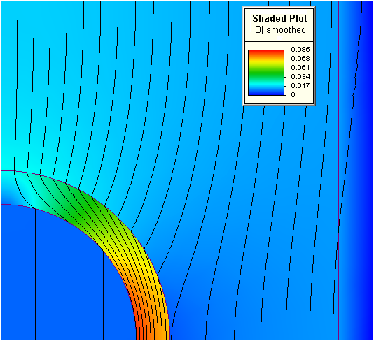 This is an example of a two-dimensional FEM (finite element method) solution for a cylindrically shaped magnetic shield. In this case "two dimensional" means that the picture shows a flat cross section of an assembly that extends to a large distance at right-angles to the paper (Cartesian coordinates). The rectangle outlined at the right of the picture is the component carrying the electrical current that creates the magnetic field. The cylindrical part is a material of high magnetic permeability (for example iron) and is shielding the area inside the cylinder from magnetic field by diverting the magnetic field. The curved lines represent the direction of magnetic field (or more specifically, lines of B, magnetic flux), and the color represents the magnetic flux density, as indicated by the color scale in the inset legend. Red is high amplitude, where the flux lines are more closely spaced. The color scale does not indicated the units, although it is possible they are Tesla. In the legend the vertical lines beside the 'B' indicate that the value plotted is the magnitude of the vector quantity B. The annotation "smoothed" indicates that the segmented lines (created by dividing the space into separate elements) have been smoothed for a more natural and correct appearance. The area inside the cylinder is low amplitude (dark blue, with widely spaced lines of magnetic flux)), suggesting that the shield is performing as it was designed to. See also Image:Example of 2D mesh.png